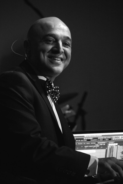 This is a public domain image of pianist Omar Akram snapped by photographer Bob Delgadillo.